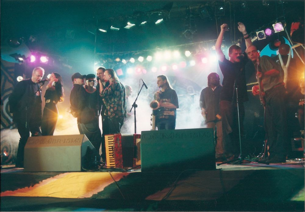 Various artists in Voo Voo concert